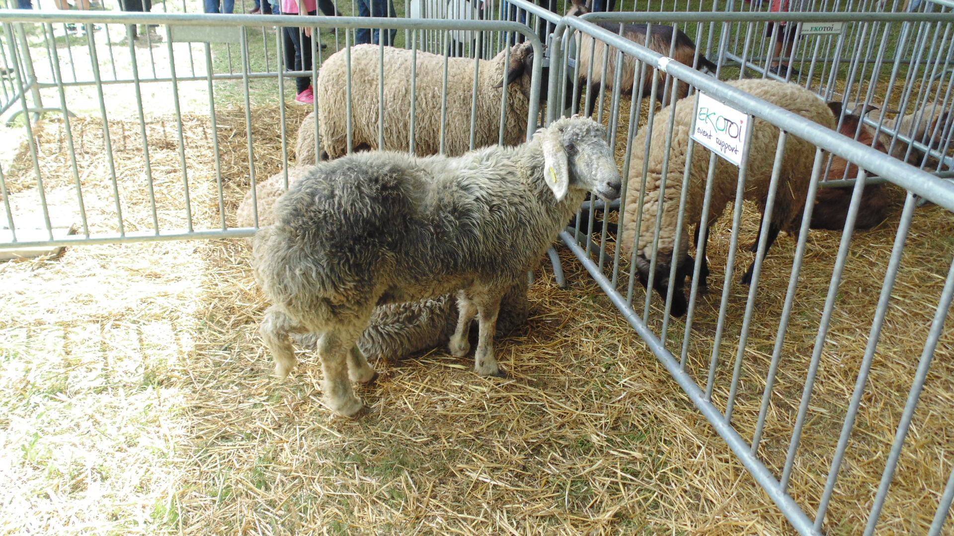 Karakul sheep